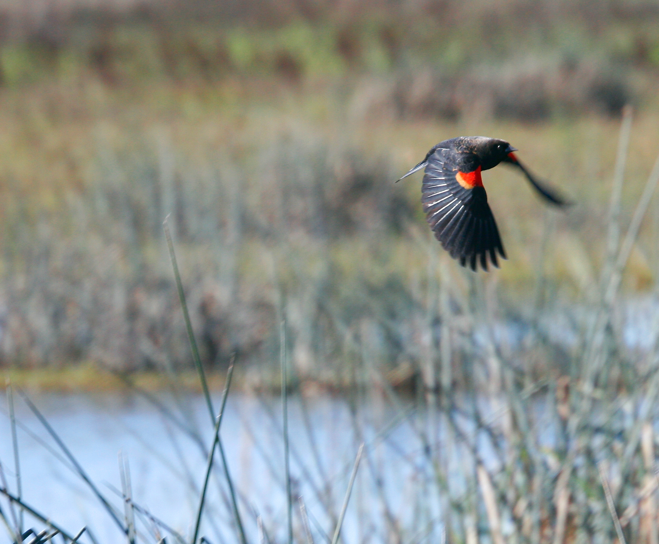 A Red-winged Blackbird in flight in the Vic Fazio Yolo Wildlife Area, outside of Davis, California.